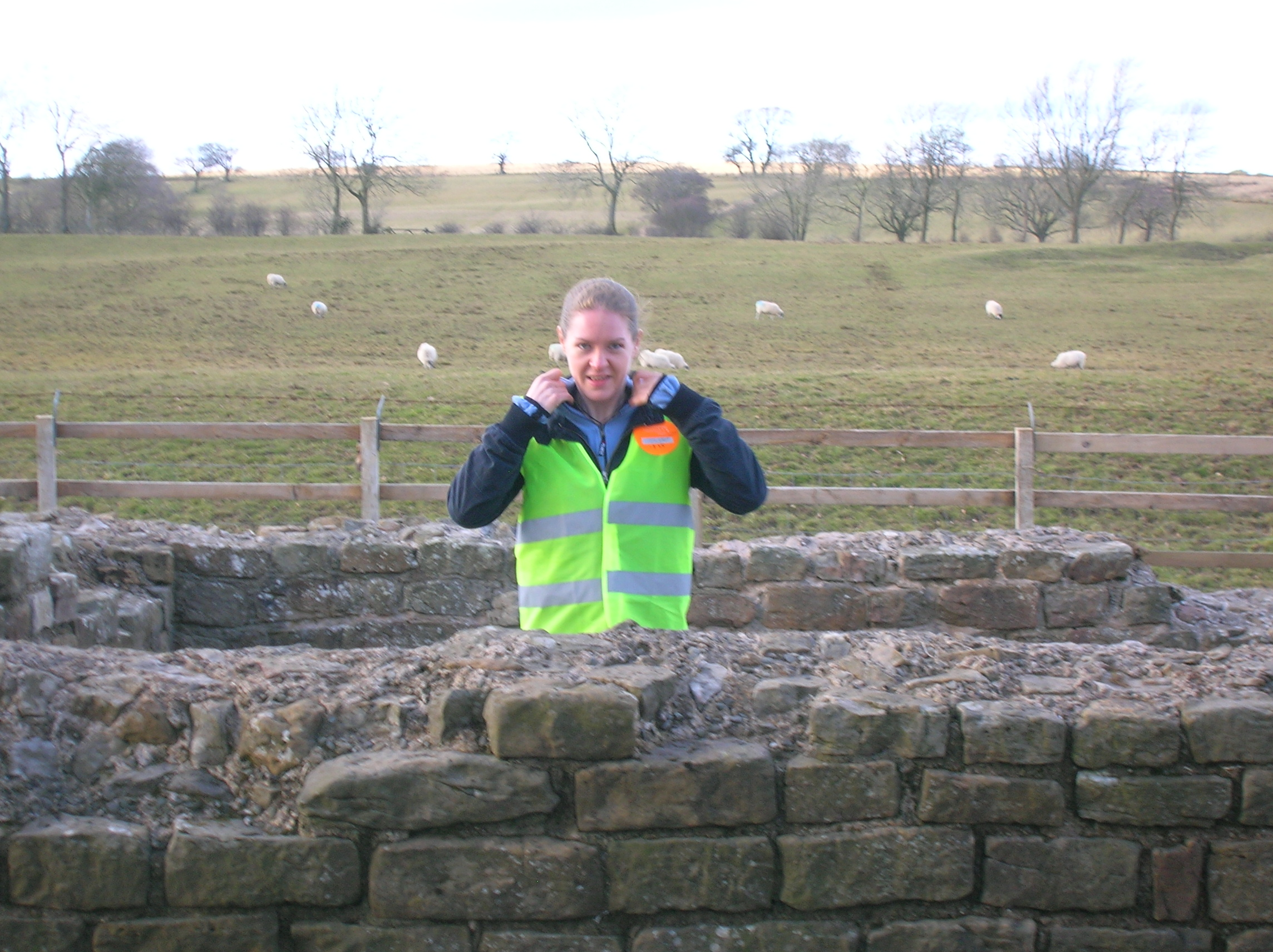 Volunteer at Leahill Turret 51B for the "Illuminating Hadrian's Wall" event on 2010-03-13, commemorating 1600 years since the Romans left Britain (AD 410).